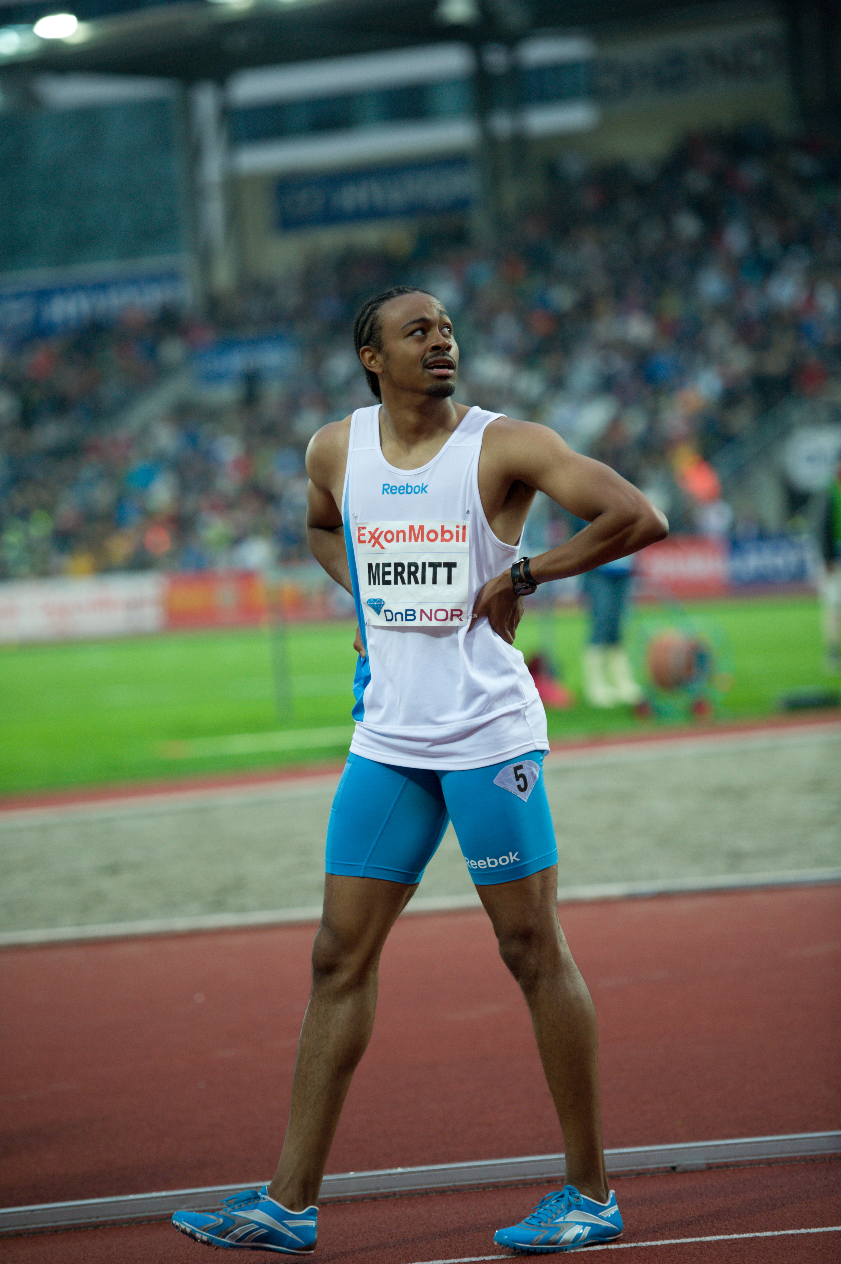 Aries Merrit winning 110 m hurdles at bislett games 2011